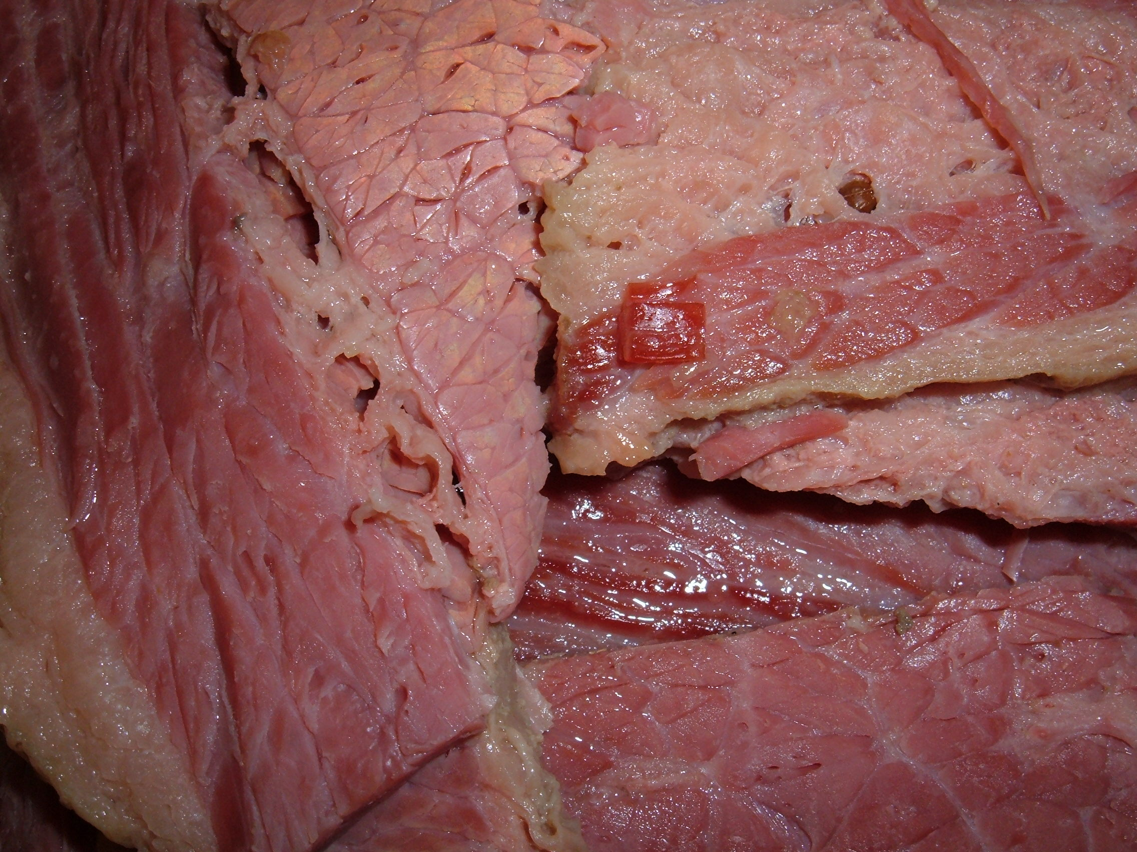 Cooked corned beef, eaten on St. Patrick's Day in 2008.